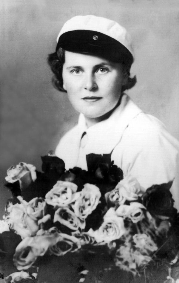 Photograph of the Finnish author Marjatta Kurenniemi née Mikkola (1918–2004) at matriculation.